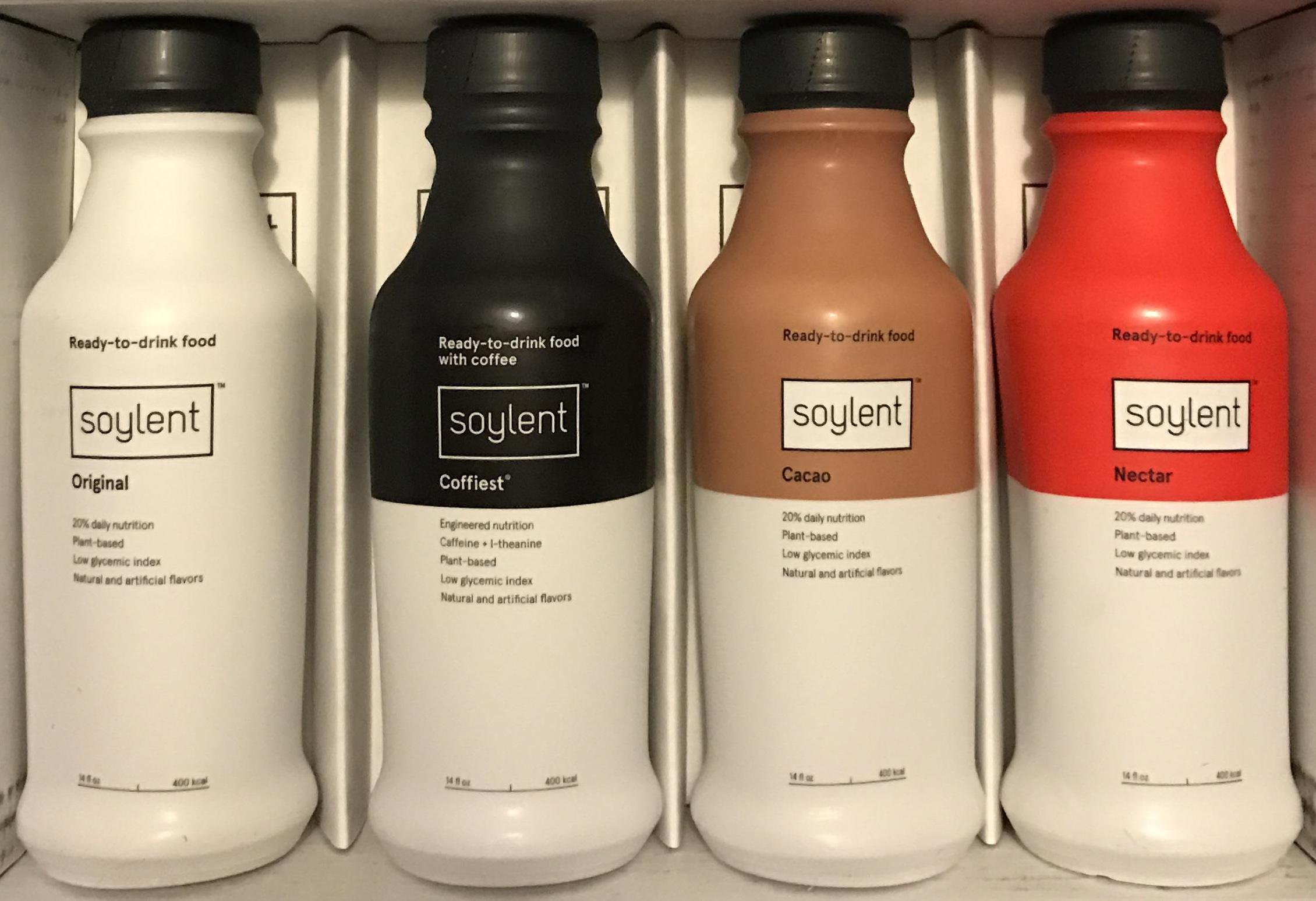 Soylent bottles from a sampler pack sent out by Rosa Labs.